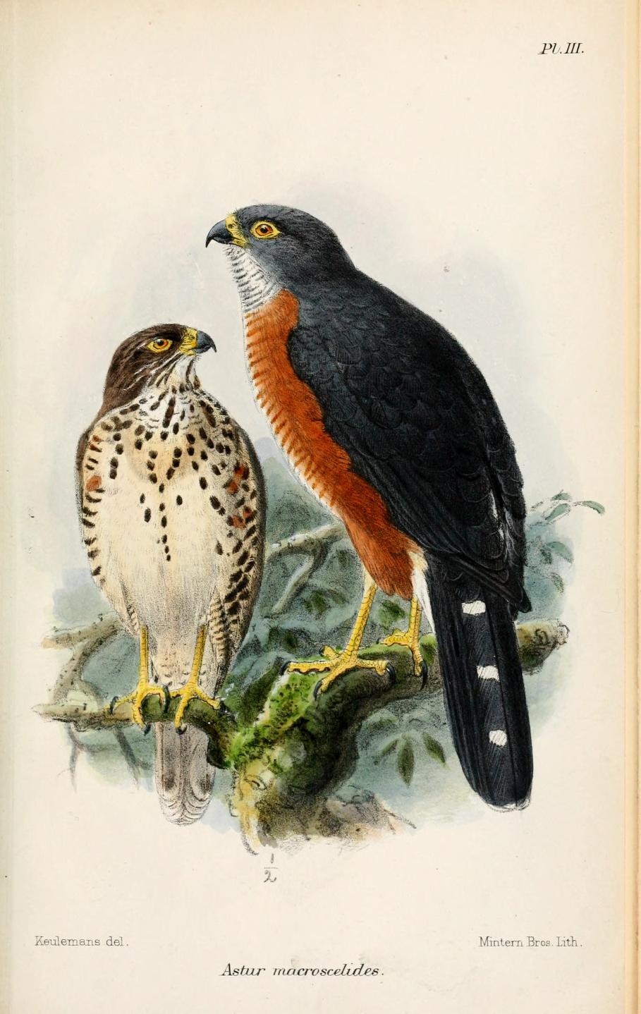 Astur macroscelides = Accipiter toussenelii, Red-chested Goshawk